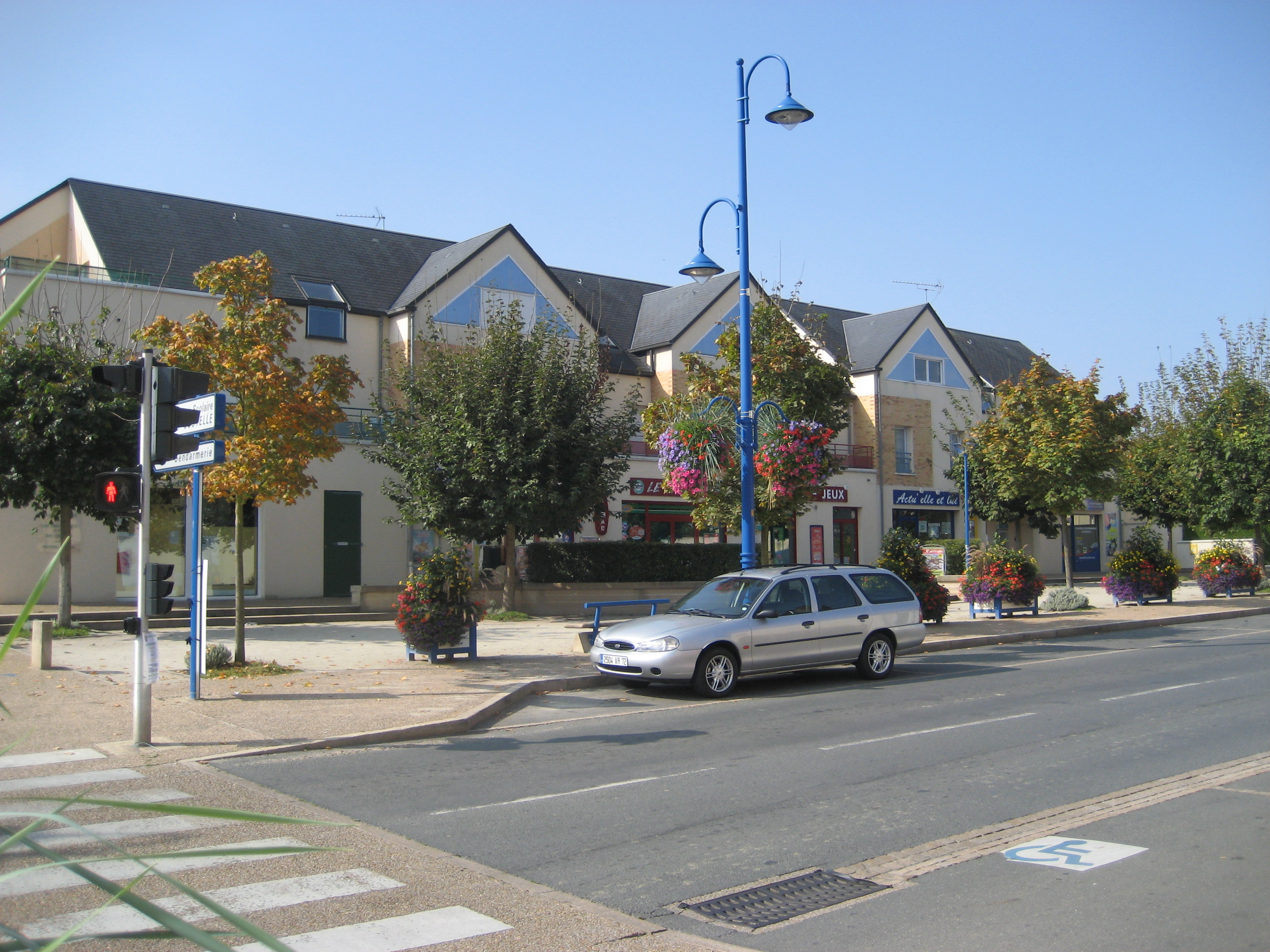 Description centre commercial(Chapelle Saint Aubin) Date6 October 2007SourceSelf-photographedAuthorfantassin 72Permission (Reusing this file) libre de droits centre commercial(Chapelle Saint Aubin)